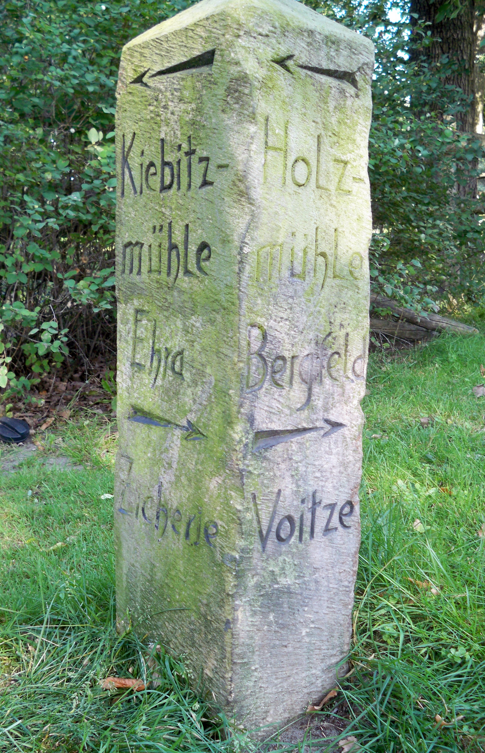 Tülau-Fahrenhorst, Lower Saxony, historic sign post